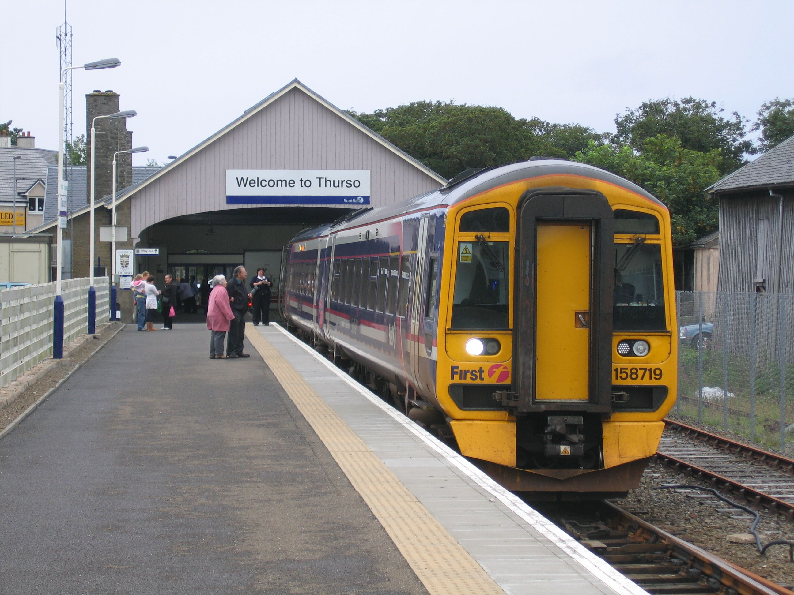 A class 158 at Thurso Railway Station in the Scottish Highlands. Thurso is the northernmost train station in Britain. It is one of the two northern termini of the Far North Line from Inverness, however not all trains terminate there - some trains go back to Georgemas Junction, before reversing and heading to Wick, where all trains terminate.